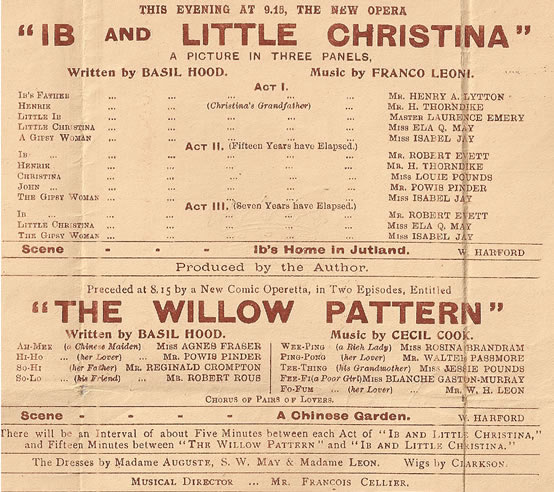 1901 cast lists from the theatre programme of Ib and Little Christina and The Willow Pattern.